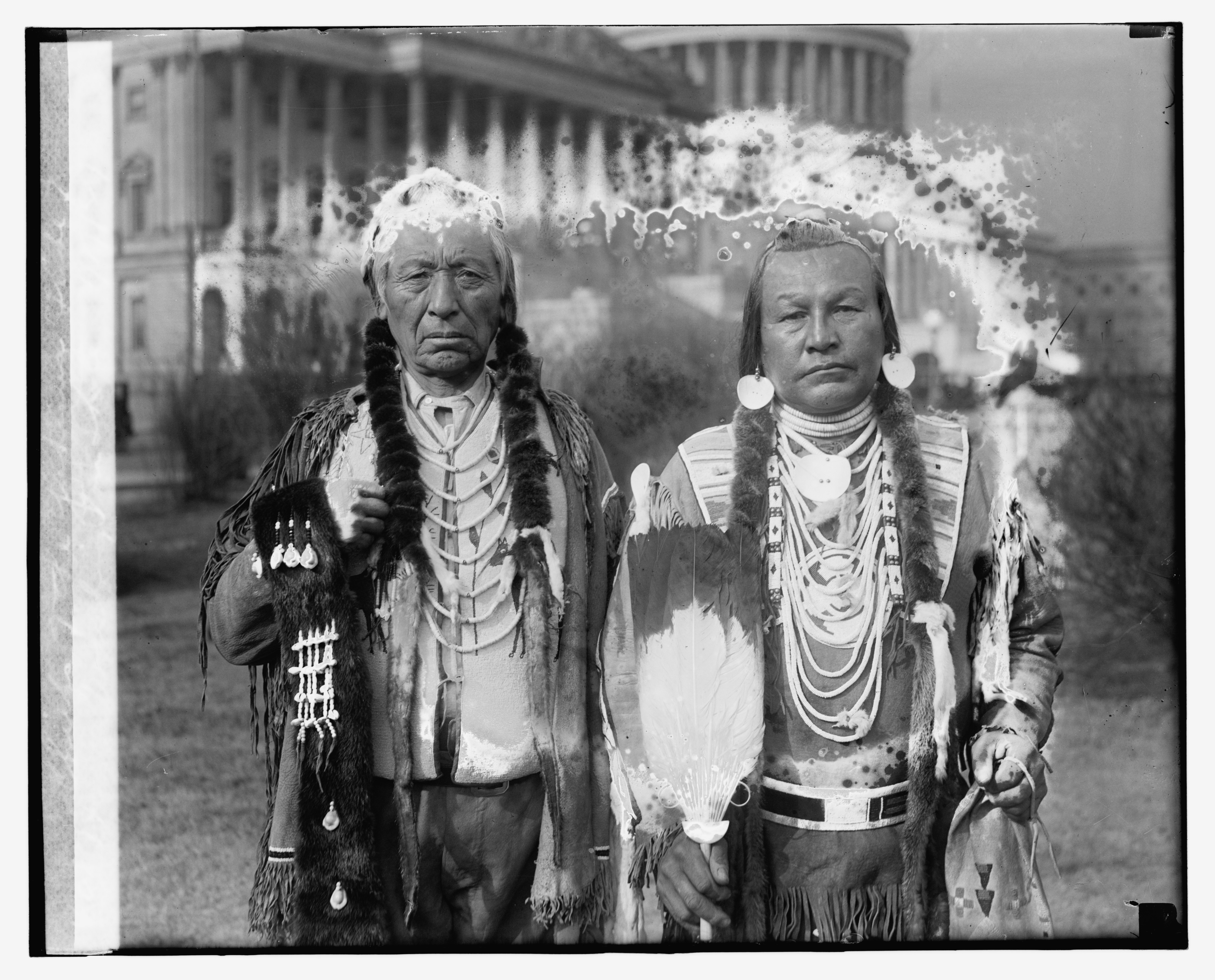 Title: Indian chiefs of the Yakima Tribe of Washington State, 1/17/27 Abstract/medium: 1 negative : glass ; 4 x 5 in. or smaller